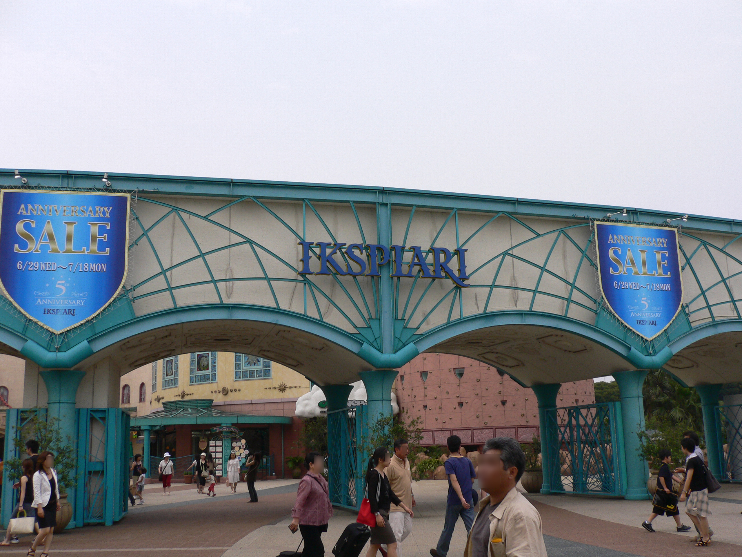 Ikspiari